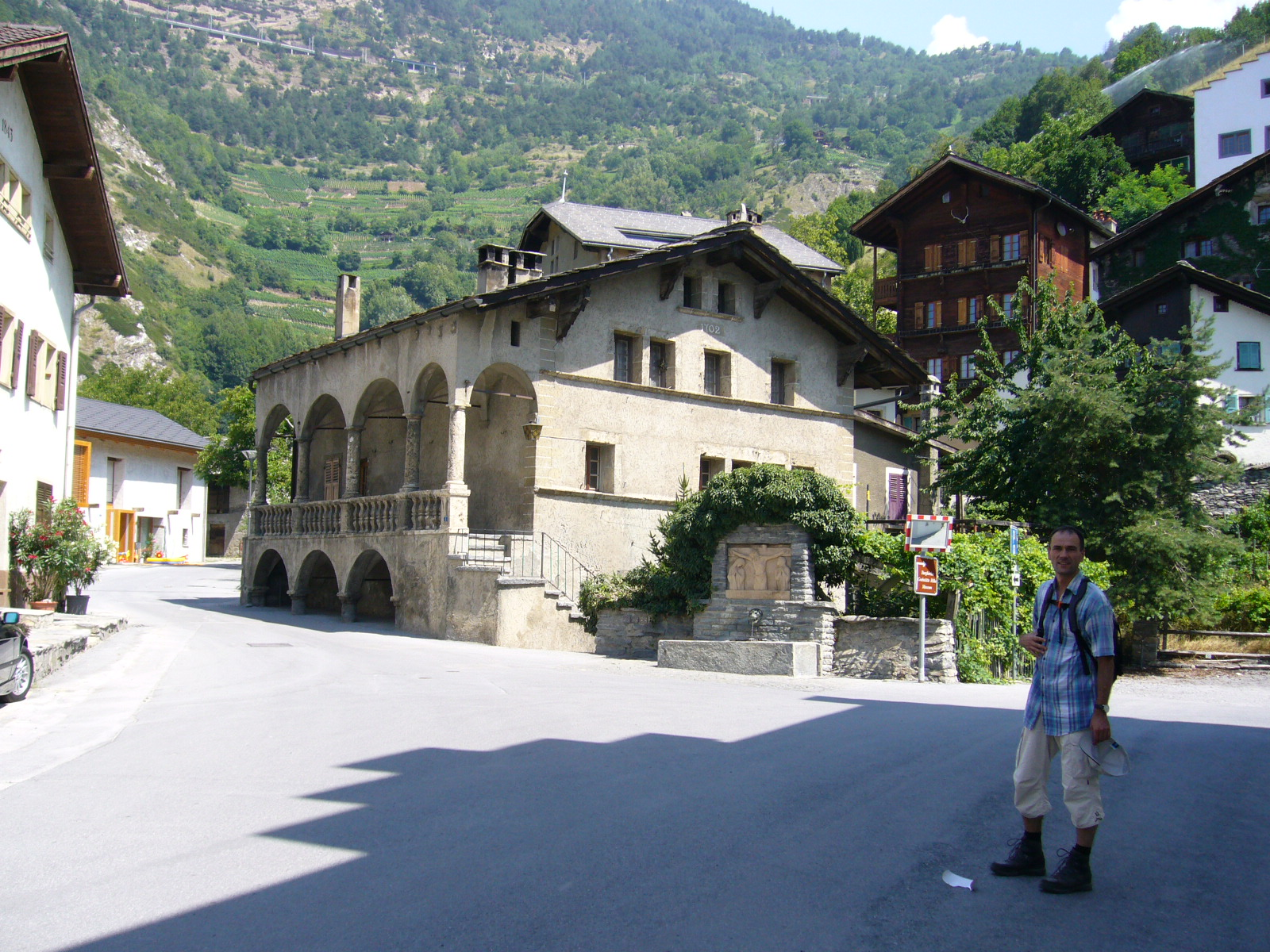 Maxenhaus in Raron, Canton Vallais, Switzerland. Picture taken by Peter Berger on July 16, 2006.